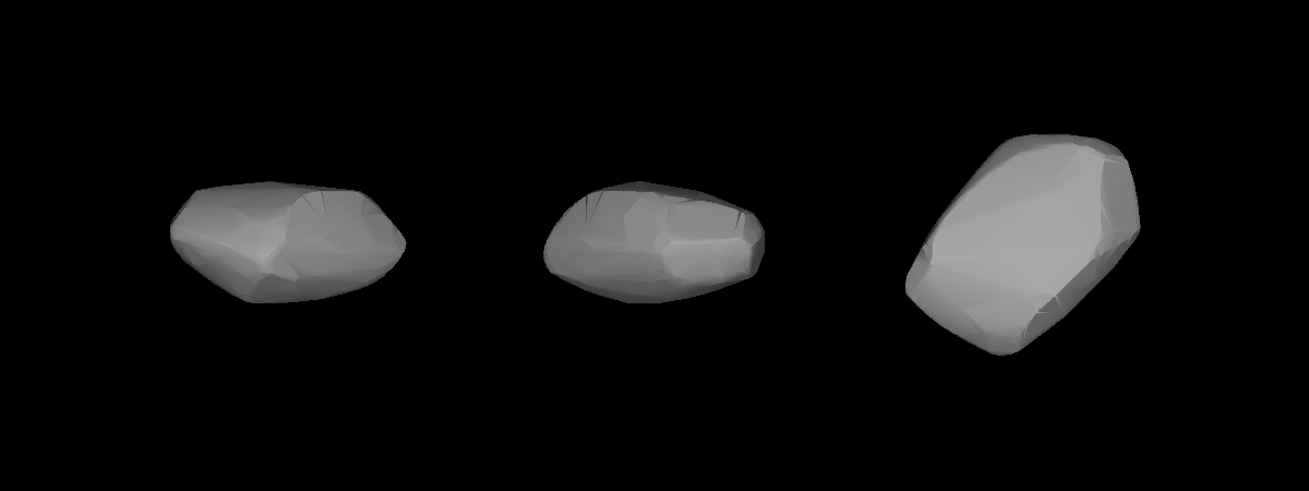 A three-dimensional model of 321 Florentina that was computed using light curve inversion techniques.